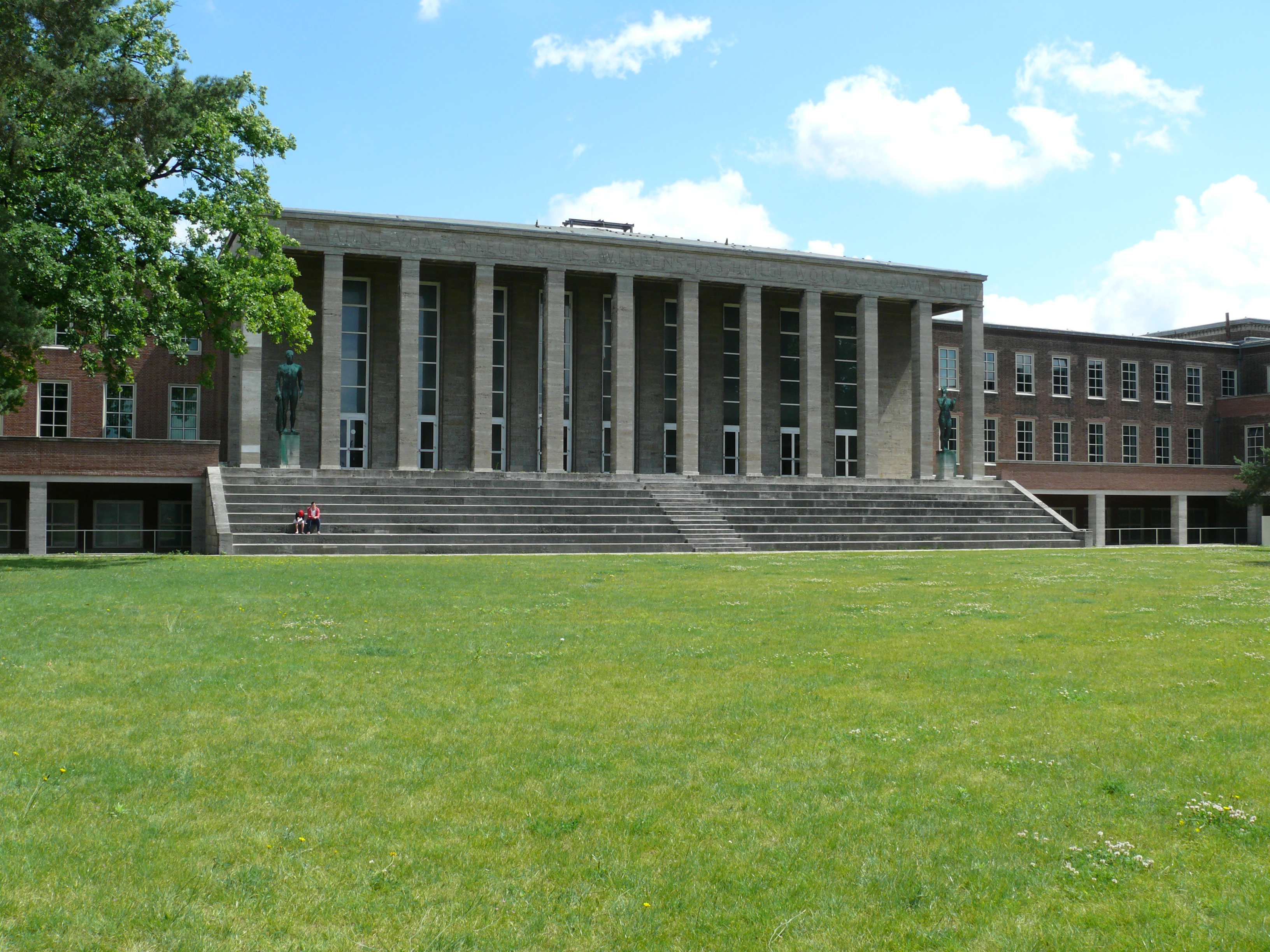 Berlin-Westend Sportforum Haus des deutschen Sports